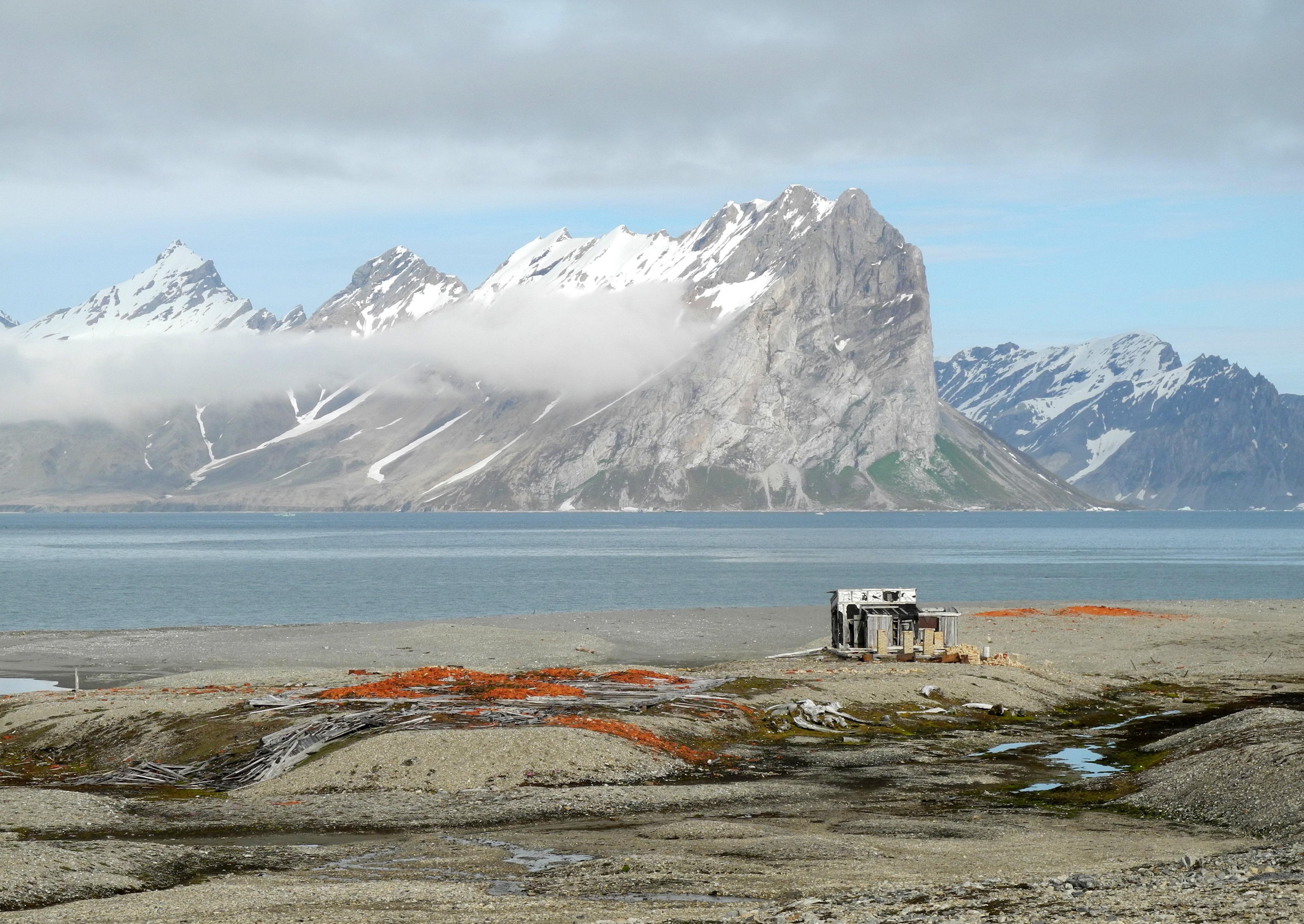 The cabin Konstantinovka between the remains of the Russian Arc of Meridian Expedition, at Gåshamna.